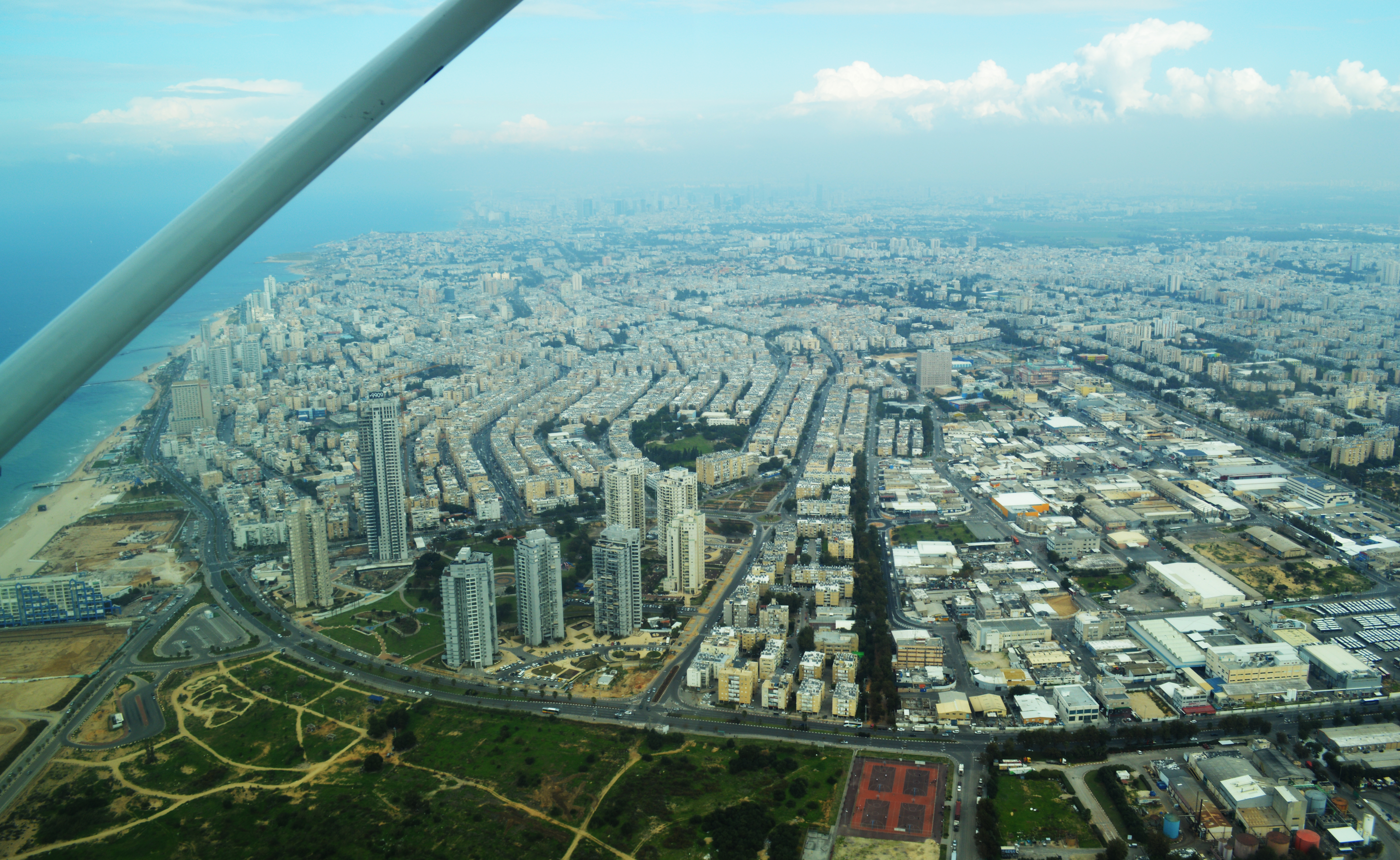 Bat Yam Aerial View